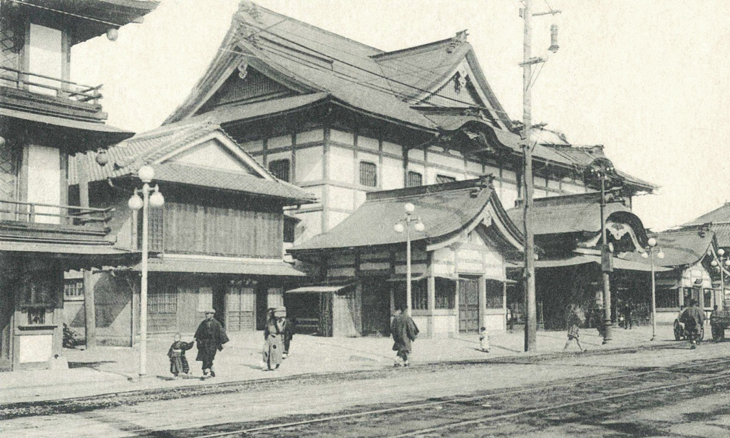 The Kabukiza Theater, Tokyo, Japan, completed in 1911 by Shimizu-gumi.